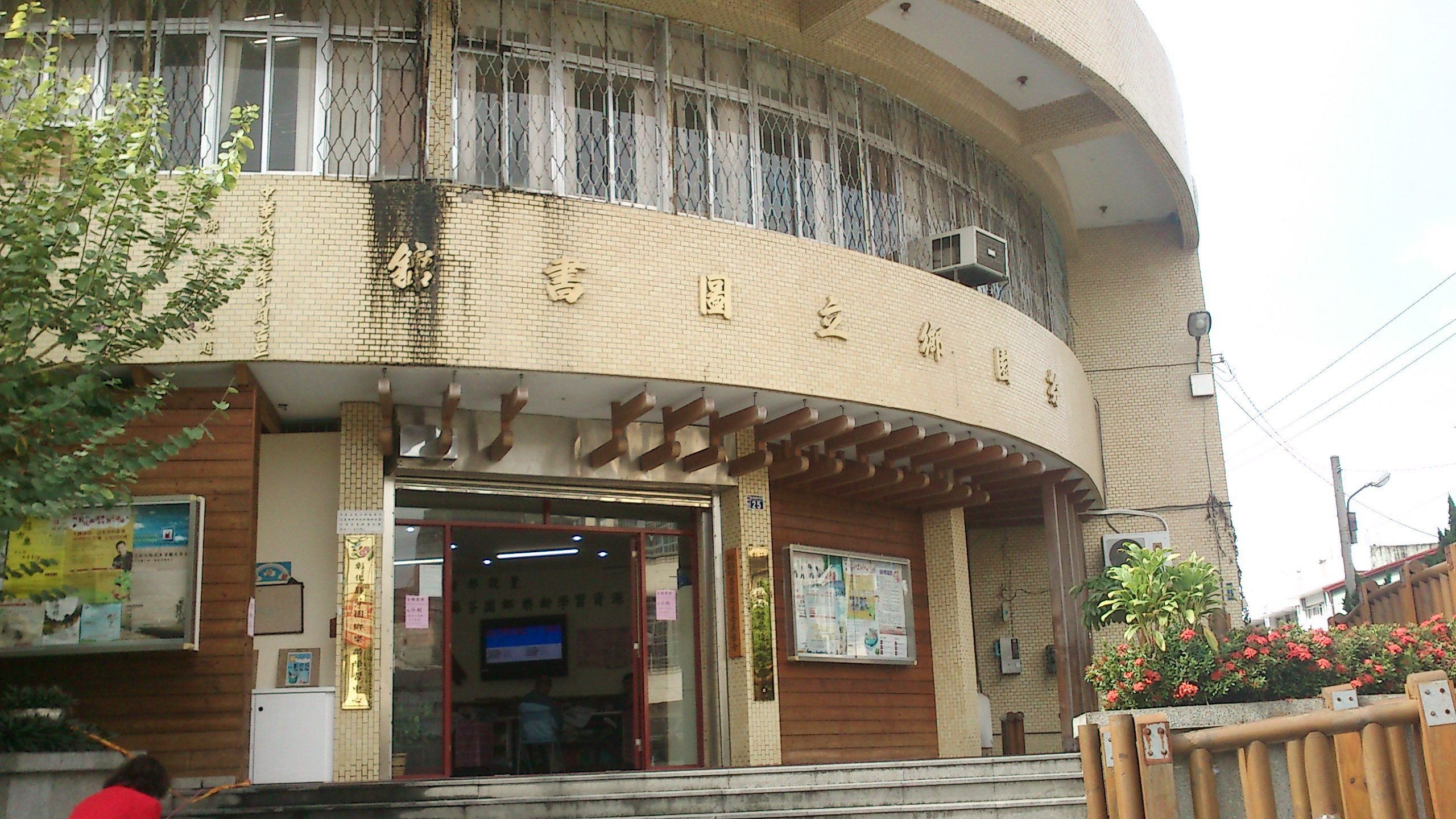 The Fenyuan Township Library, Changhua County, Taiwan